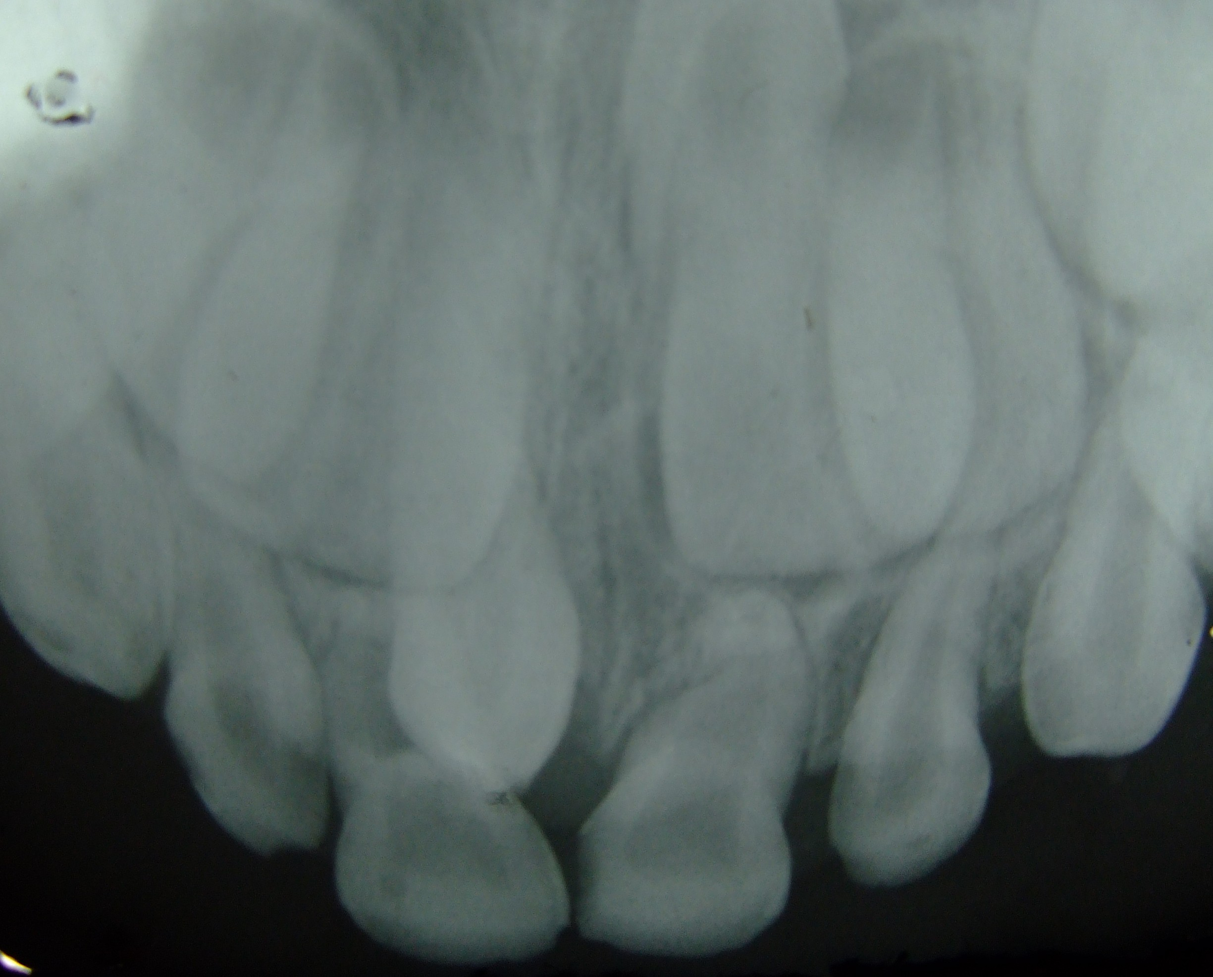 Two supernumeray teeth at premaxilla; Mesiodens